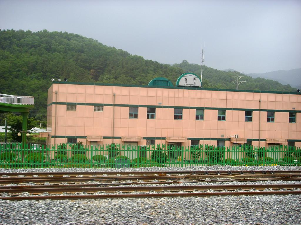 Daegu Line Cheongcheon Station